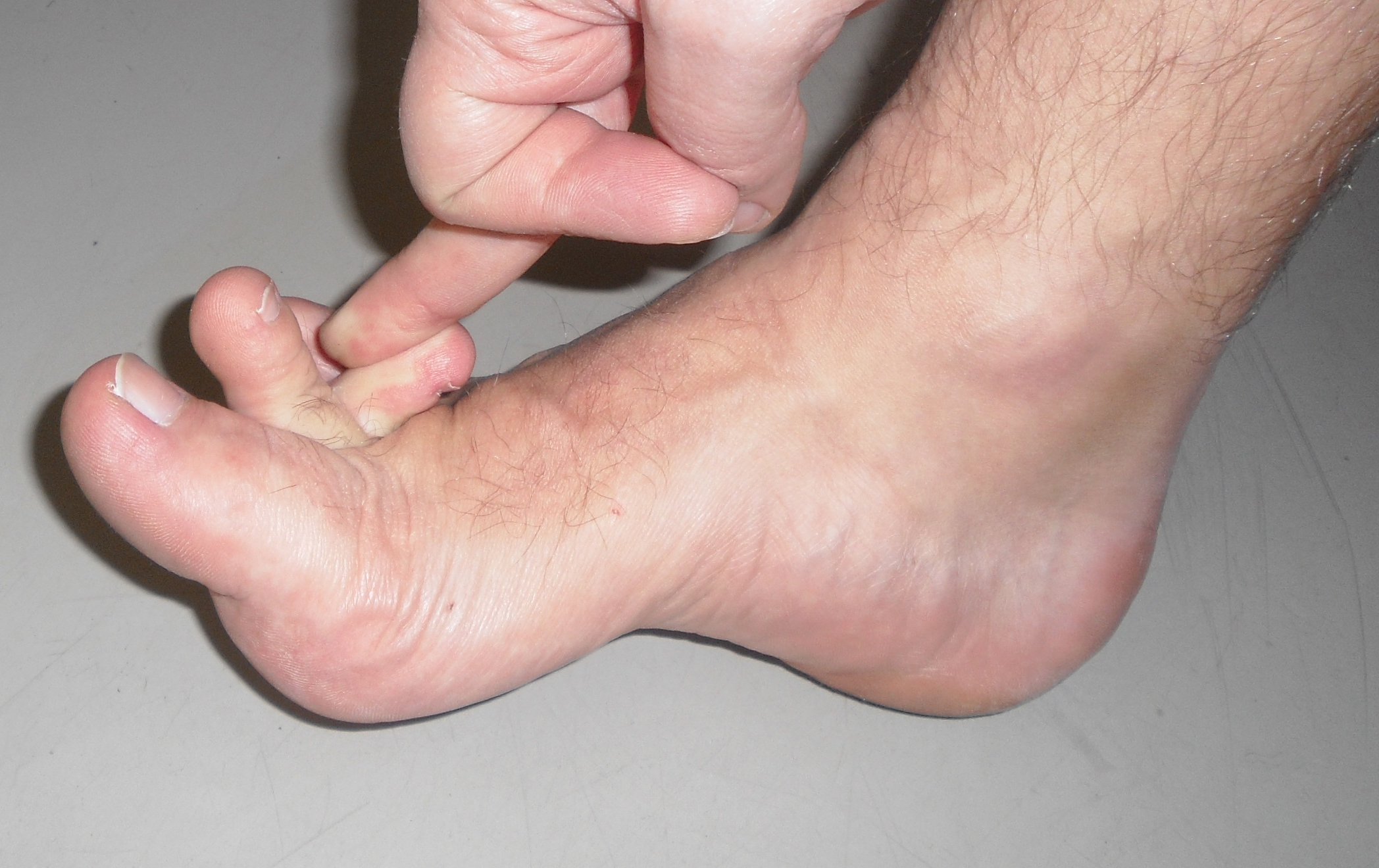 Hyperextension Toe